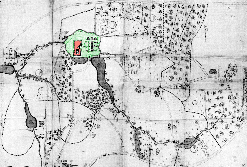 Old map of Izmailovo in 1664 prior to major redevelopment by Tsar Alexis. The island is still connected to mainland with solid ground and the Menagerie (circular, below the island) is already in place. The main island shown in green, the Court in red.